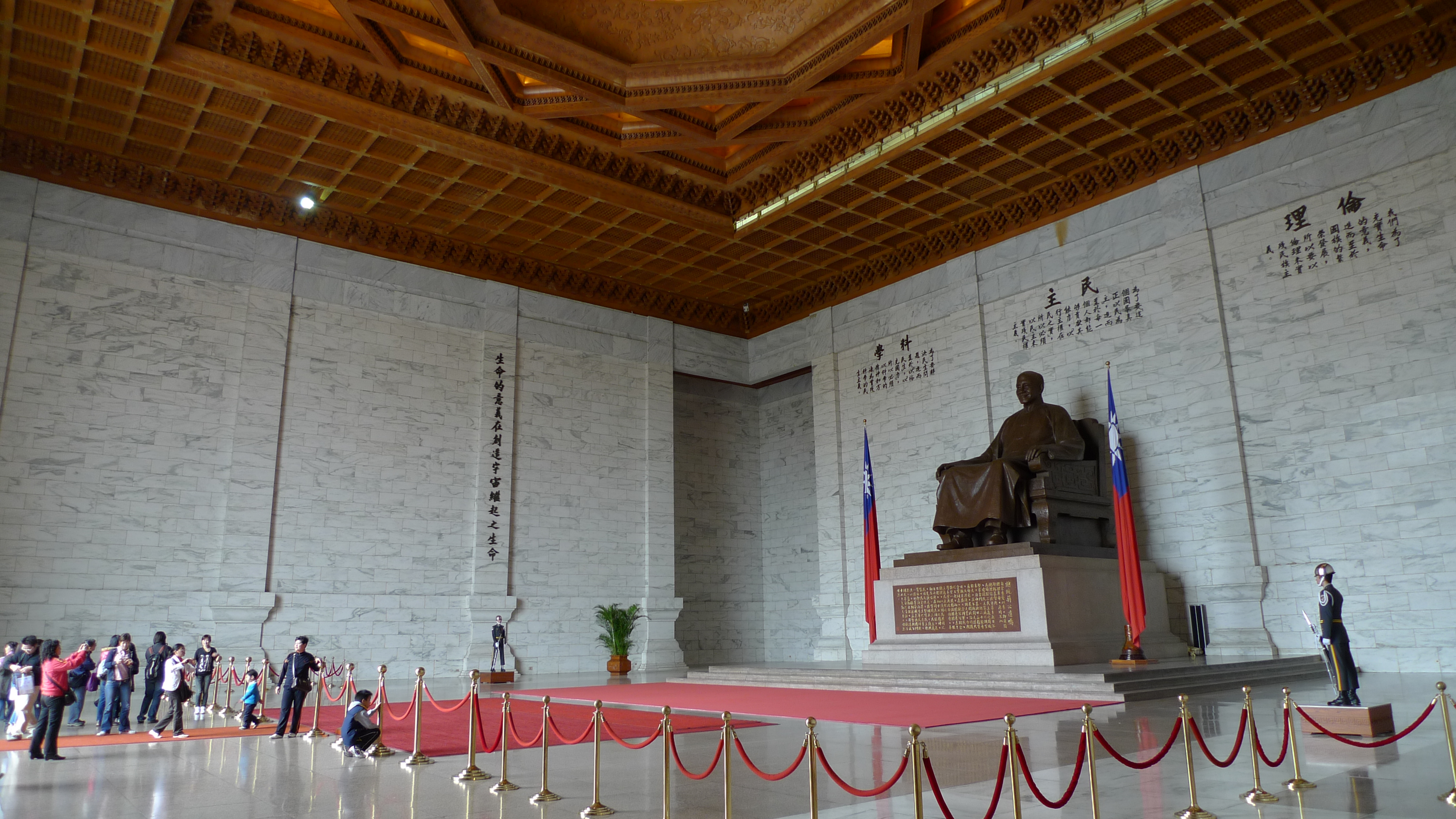 View of the interior of the Chiang-Kai-Shek Memorial in Taipei, Taiwan.